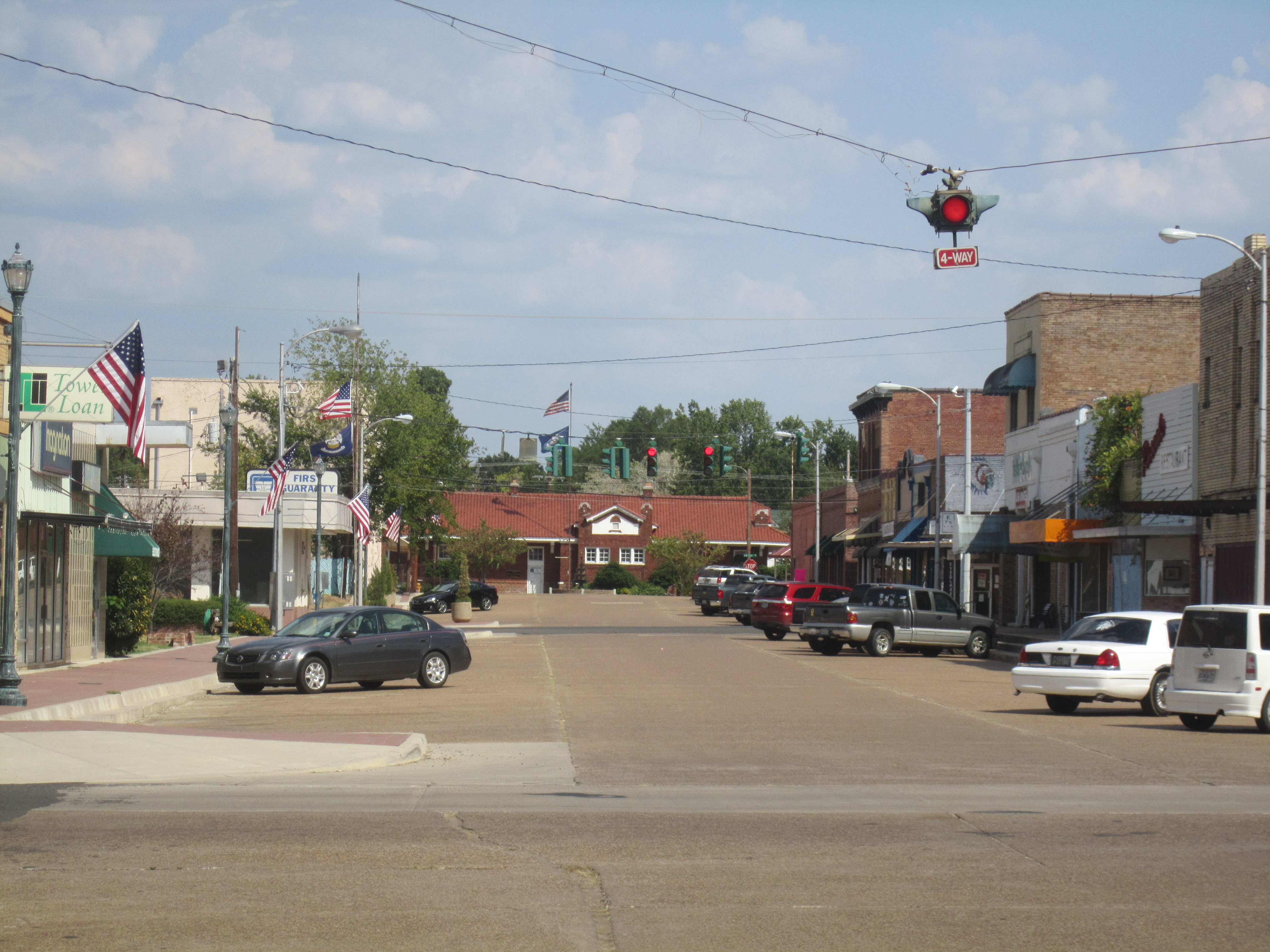 I took photo of downtown Vivian, LA, with Canon camera.